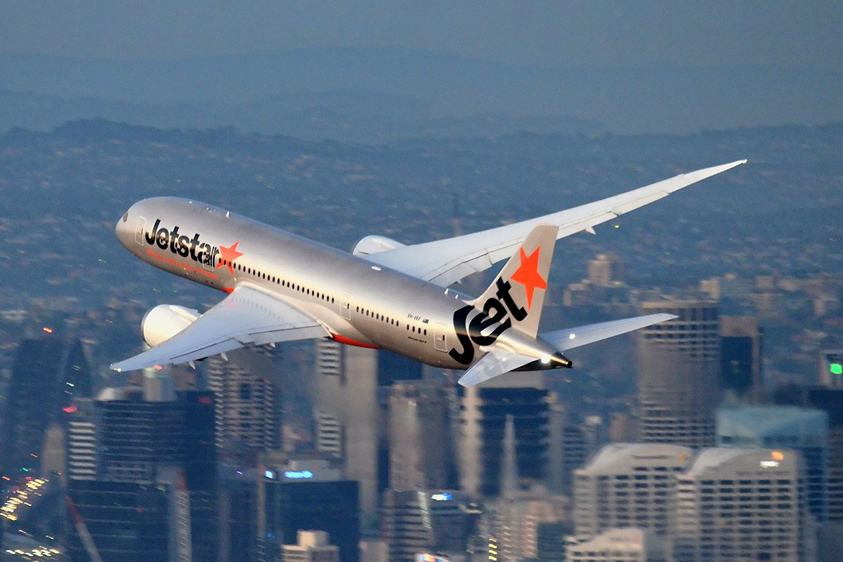 Jetstar Boeing 787 (VH-VKF) operating Flight JQ37 SYD-DPS